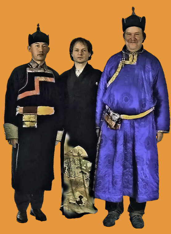 The garment of a Mongolian priest of Tibetan Buddhism, the garb of a Japanese businessman (circa 1900), the robe of a scholar (from left to right).